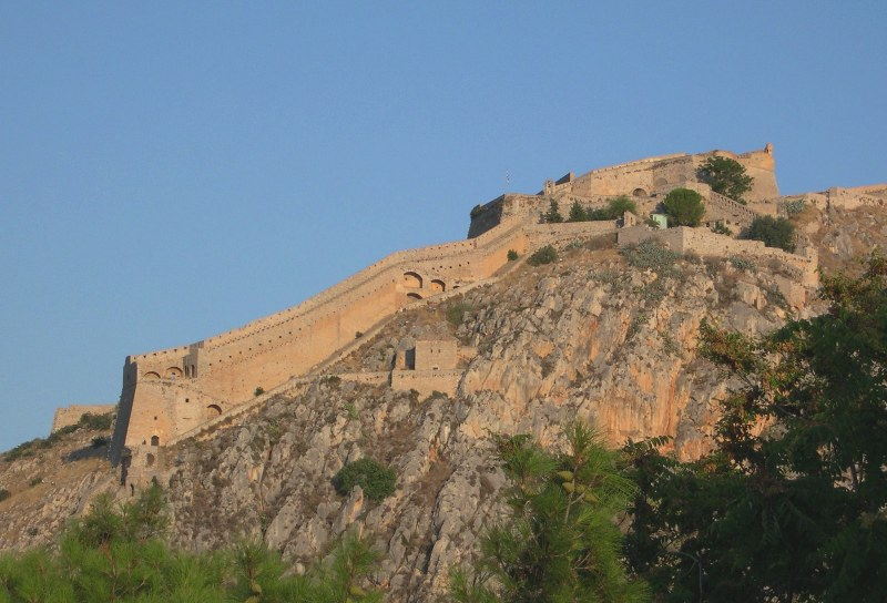 The Palamidi Fortress at Nauplio